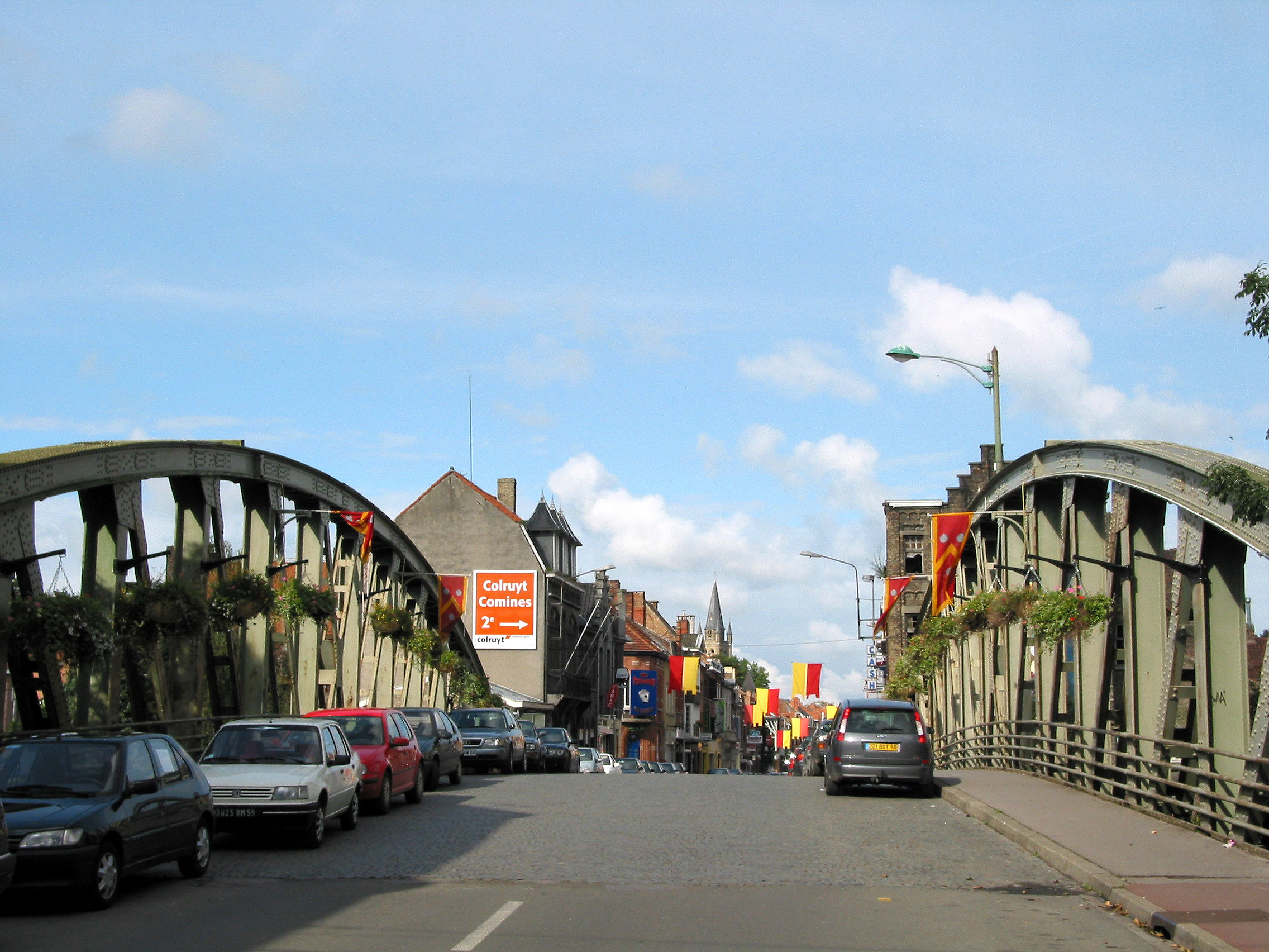 Comines (Belgium), view of the rue du fort and the bridge on the Lys river from Comines (France).